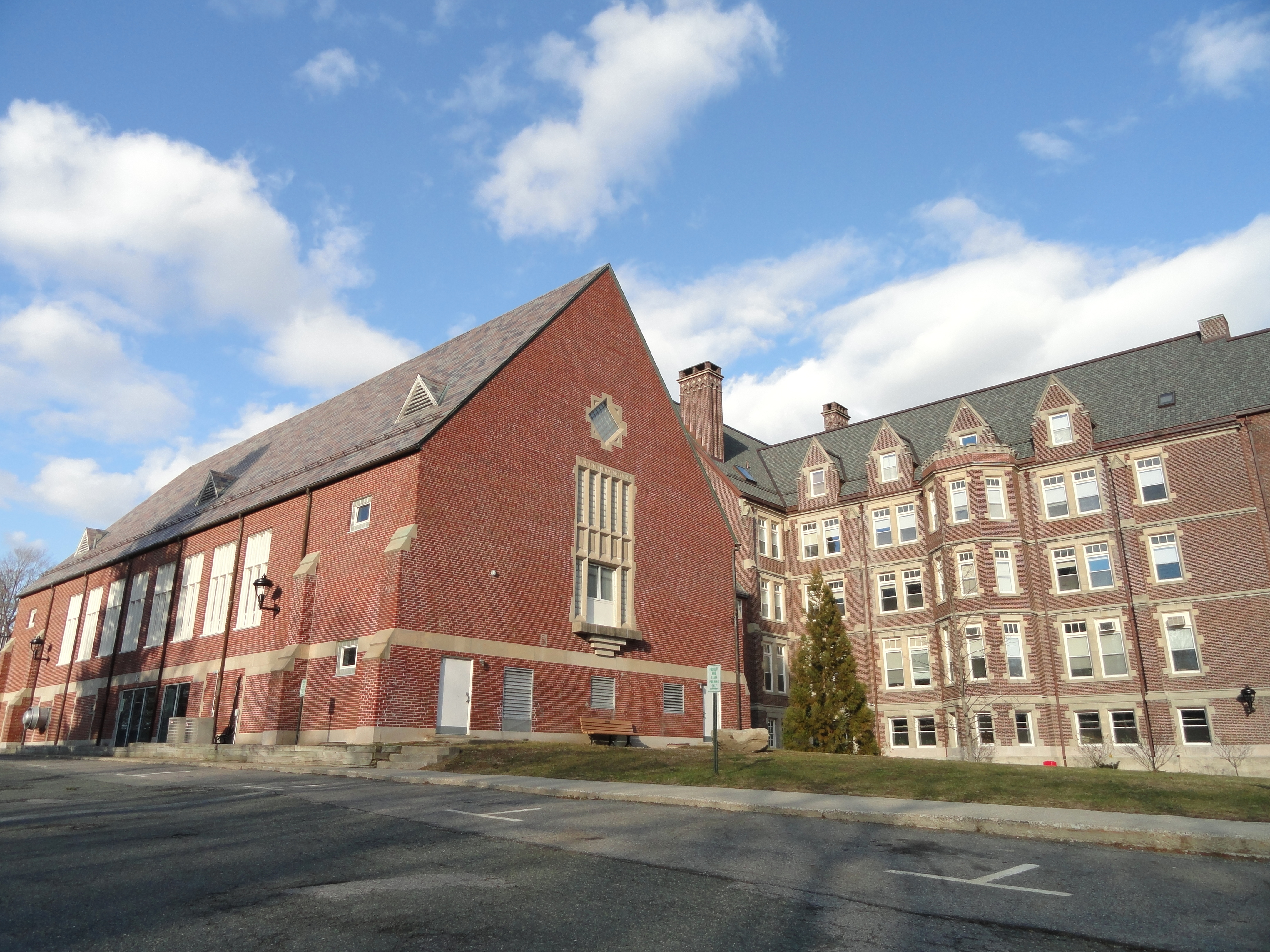 Massachusetts Bay Community College, 50 Oakland Street, Wellesley, Massachusetts, USA.